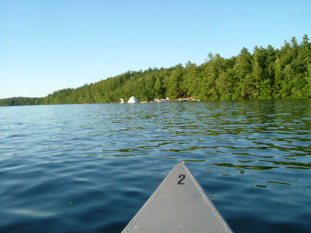 In canoe on Trickey Pond. In the distance is Camp Skylemar's waterfront.